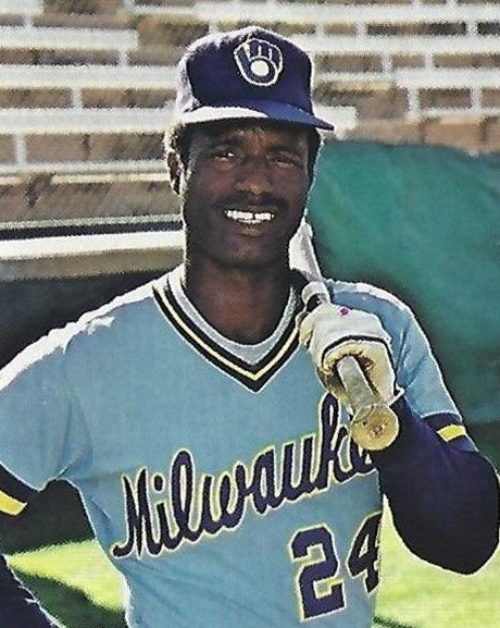 Image cropped from a baseball card of Ben Oglivie from the 1983 Milwaukee Brewers Police set.